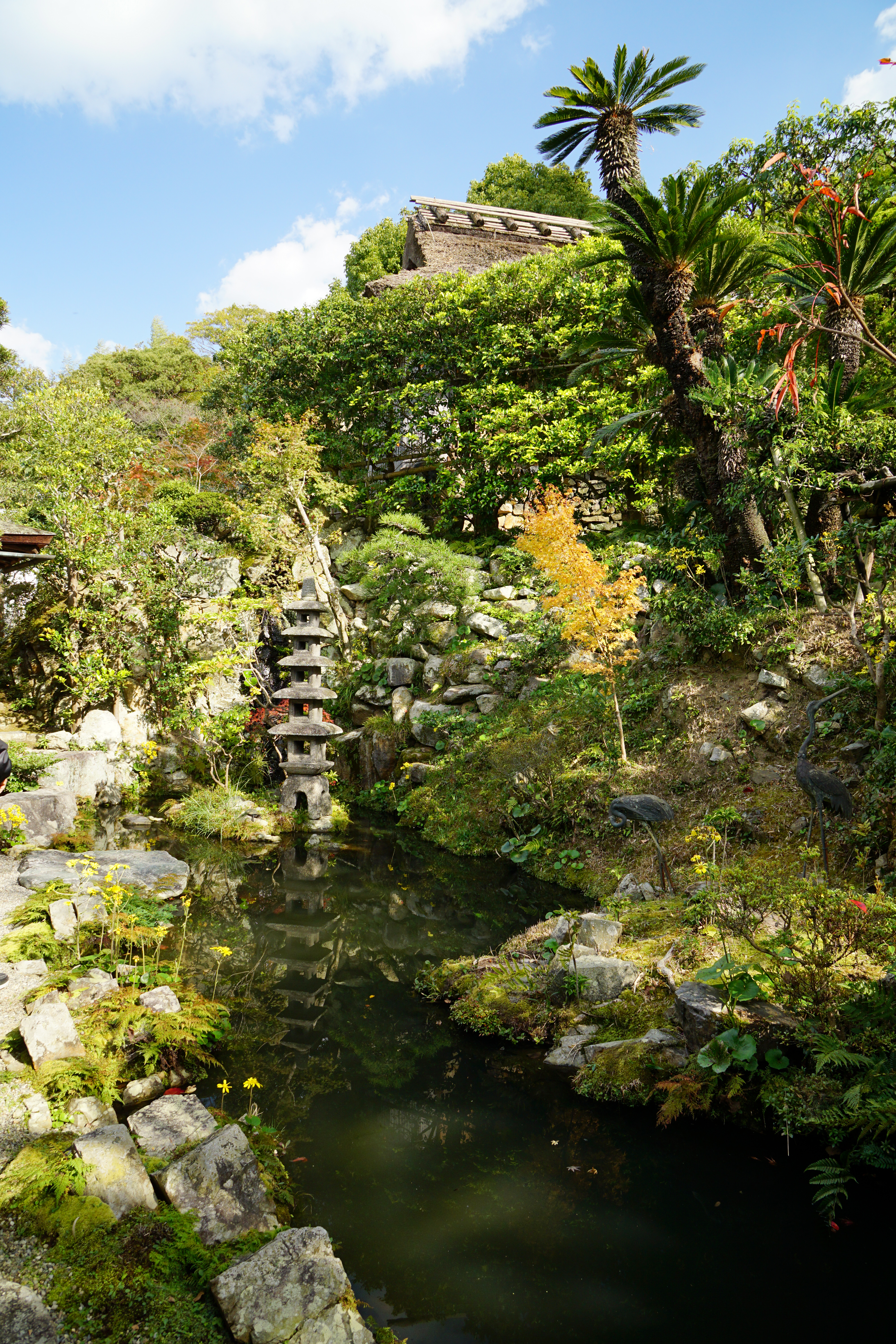 Tabuchi Garden is Japan's "Places of Scenic Beauty" in Akō, Hyogo prefecture, Japan.